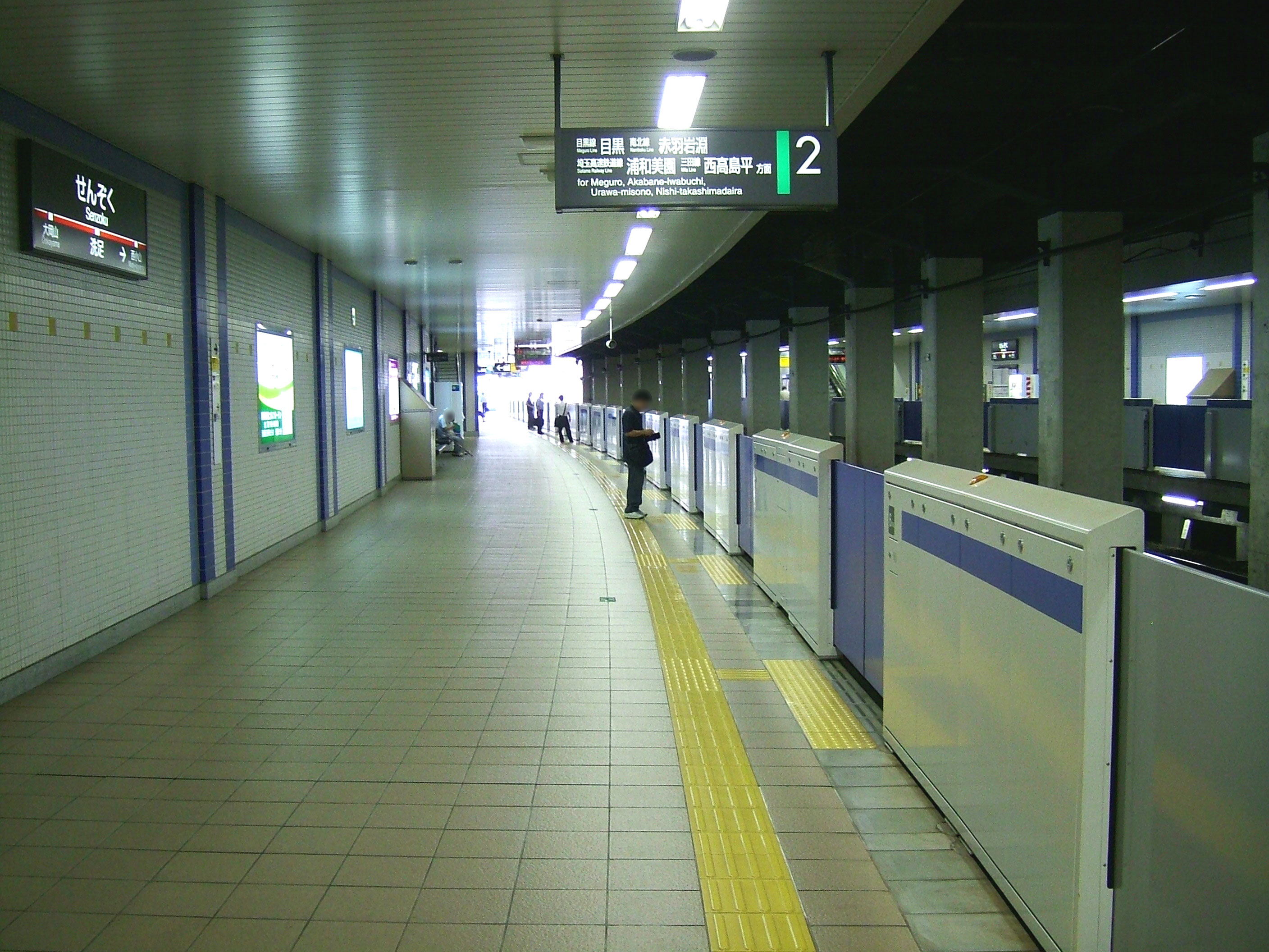 Senzoku Station platform (Tōkyū Meguro Line)